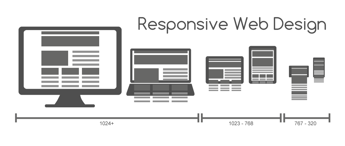 Responsie web design illustration. Responsive design for desktop screen, notebook, tablet and mobile phone device.